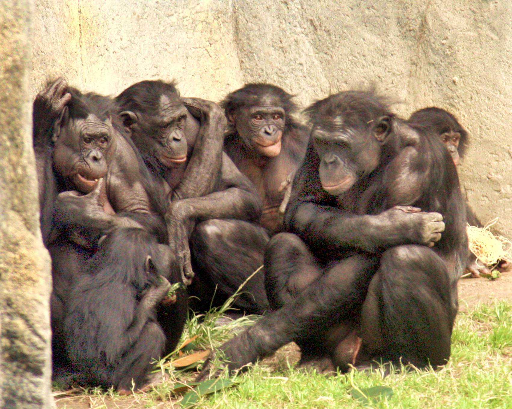 Social gathering of six bonobos at the San Diego Zoo.